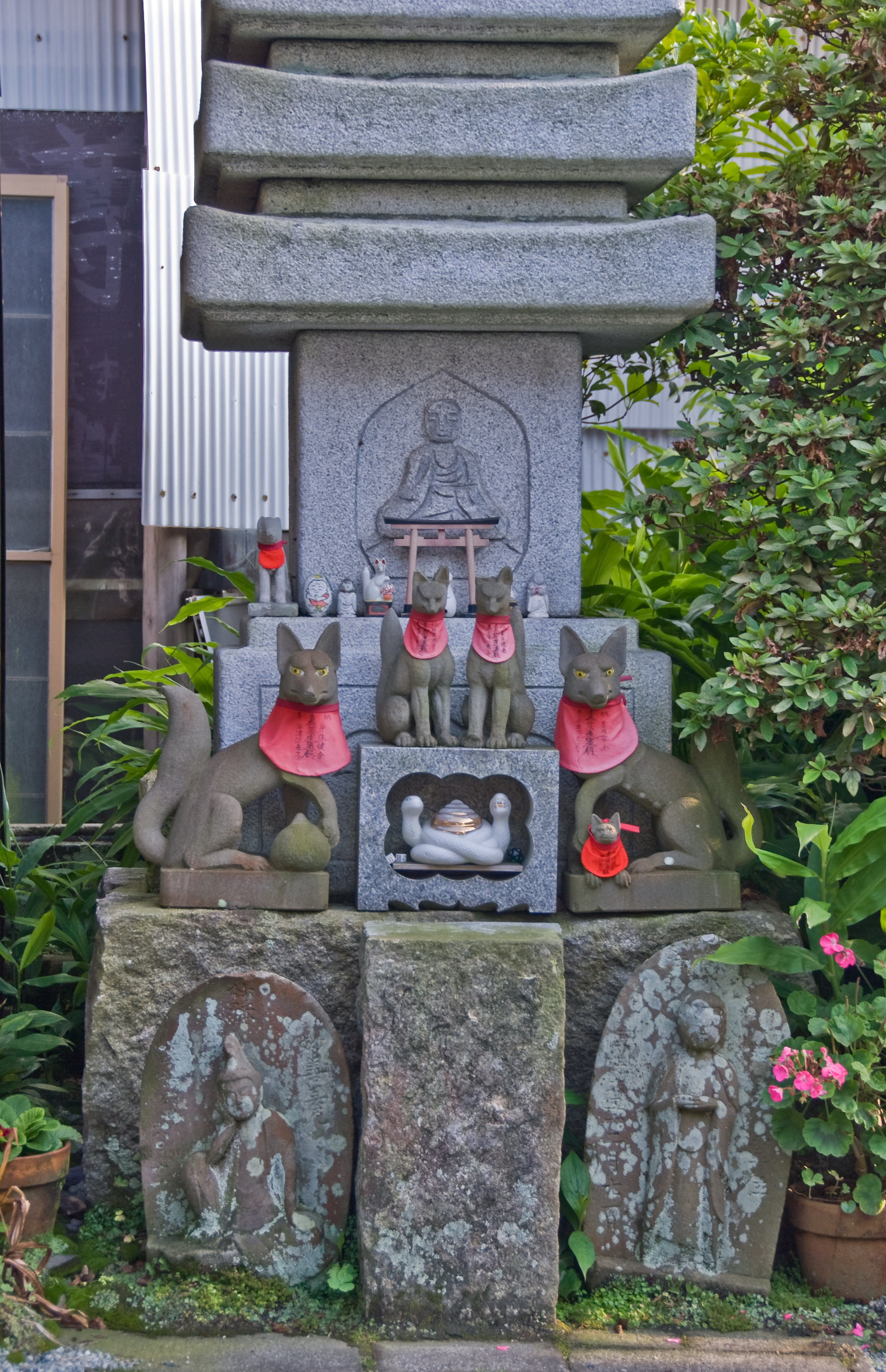 Foxes sacred to Shinto "kami" Inari, a "torii", a Buddhist tower, and Buddhist statues together at Jōgyō-ji, Kamakura